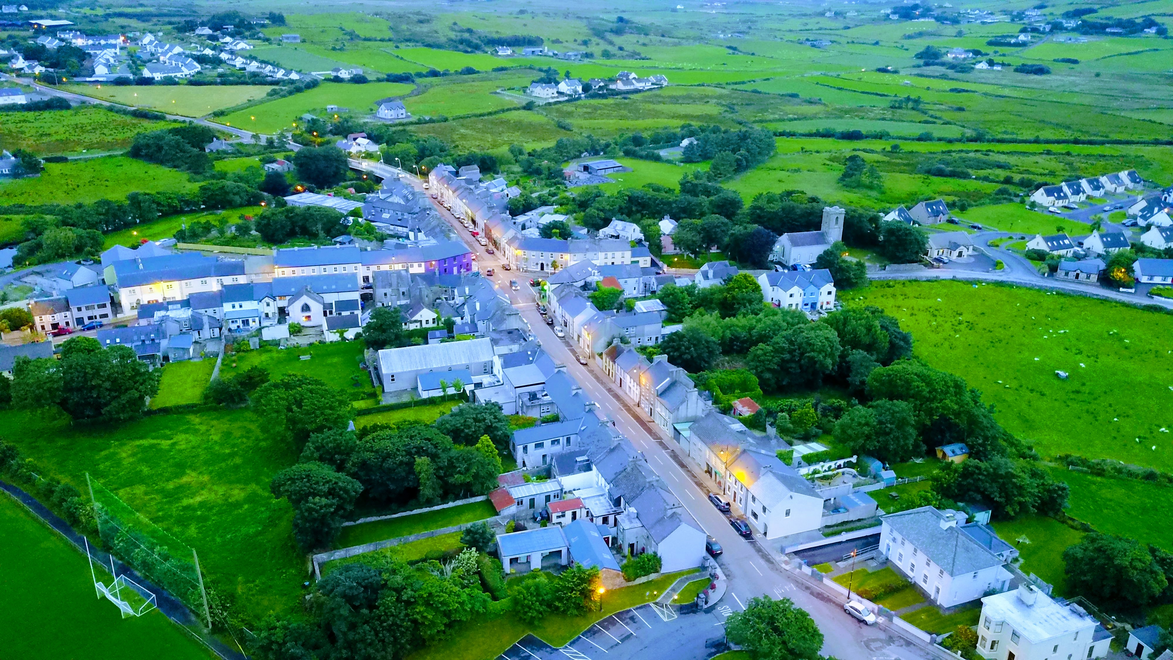 An aerial view of Louisburgh in the evening light.